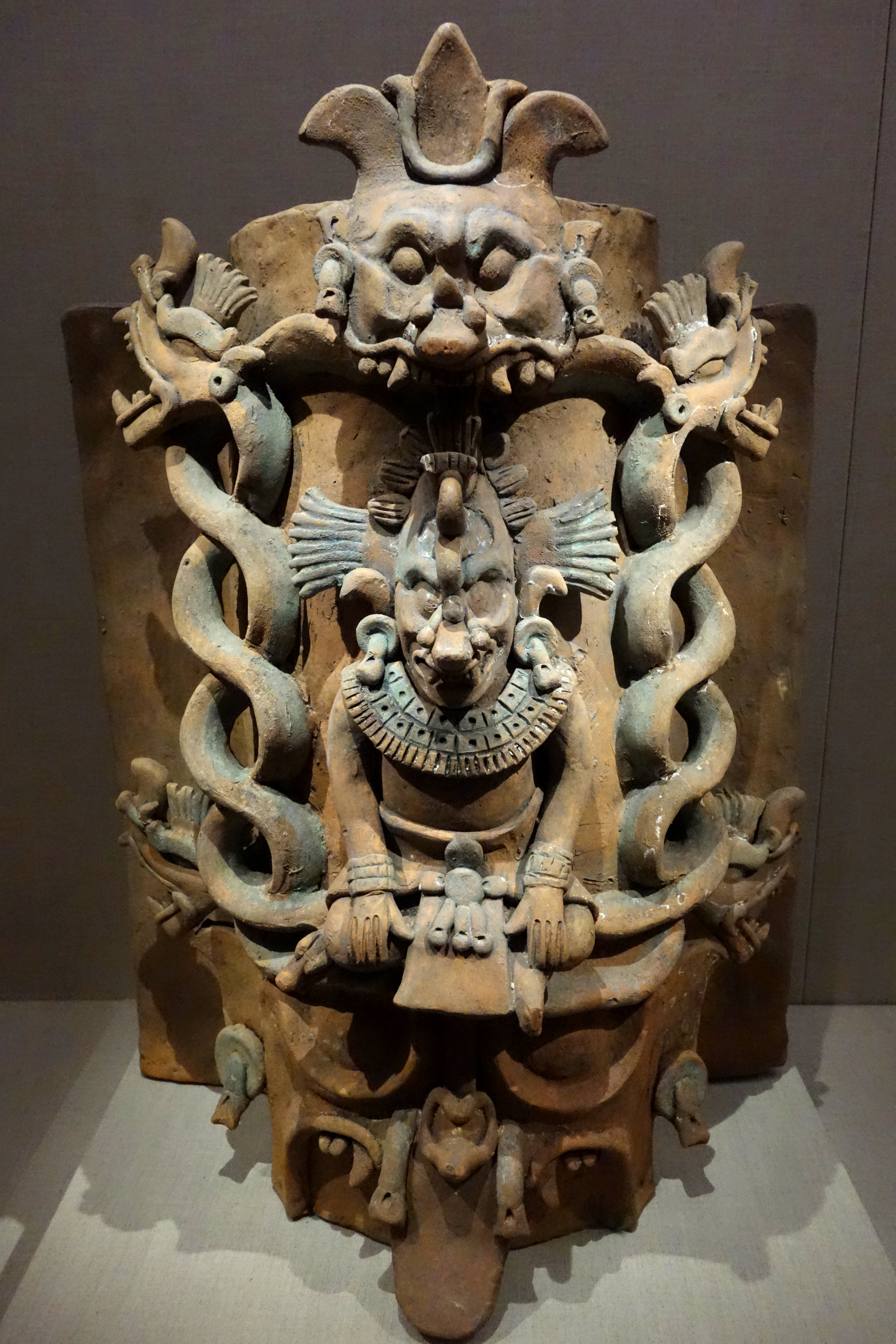 Exhibit in the De Young Museum, San Francisco, California, USA. This artwork is in the public domain because the artist died more than 70 years ago.